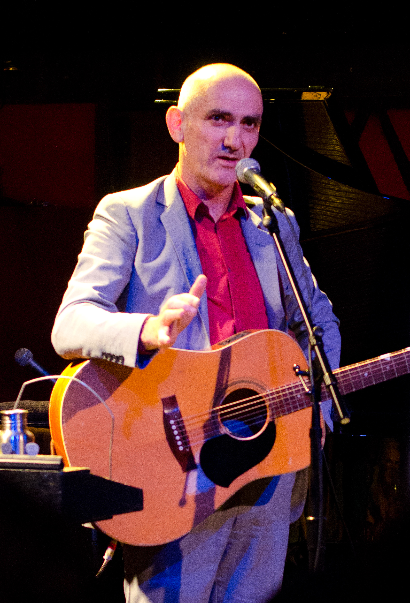 Paul Kelly performing "The A-Z Shows" at Rockwood Music Hall in New York City, September 26, 2011.